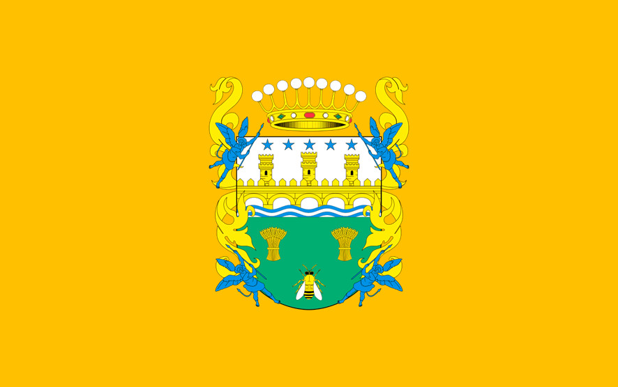 Flag of Melipilla city (Chile)